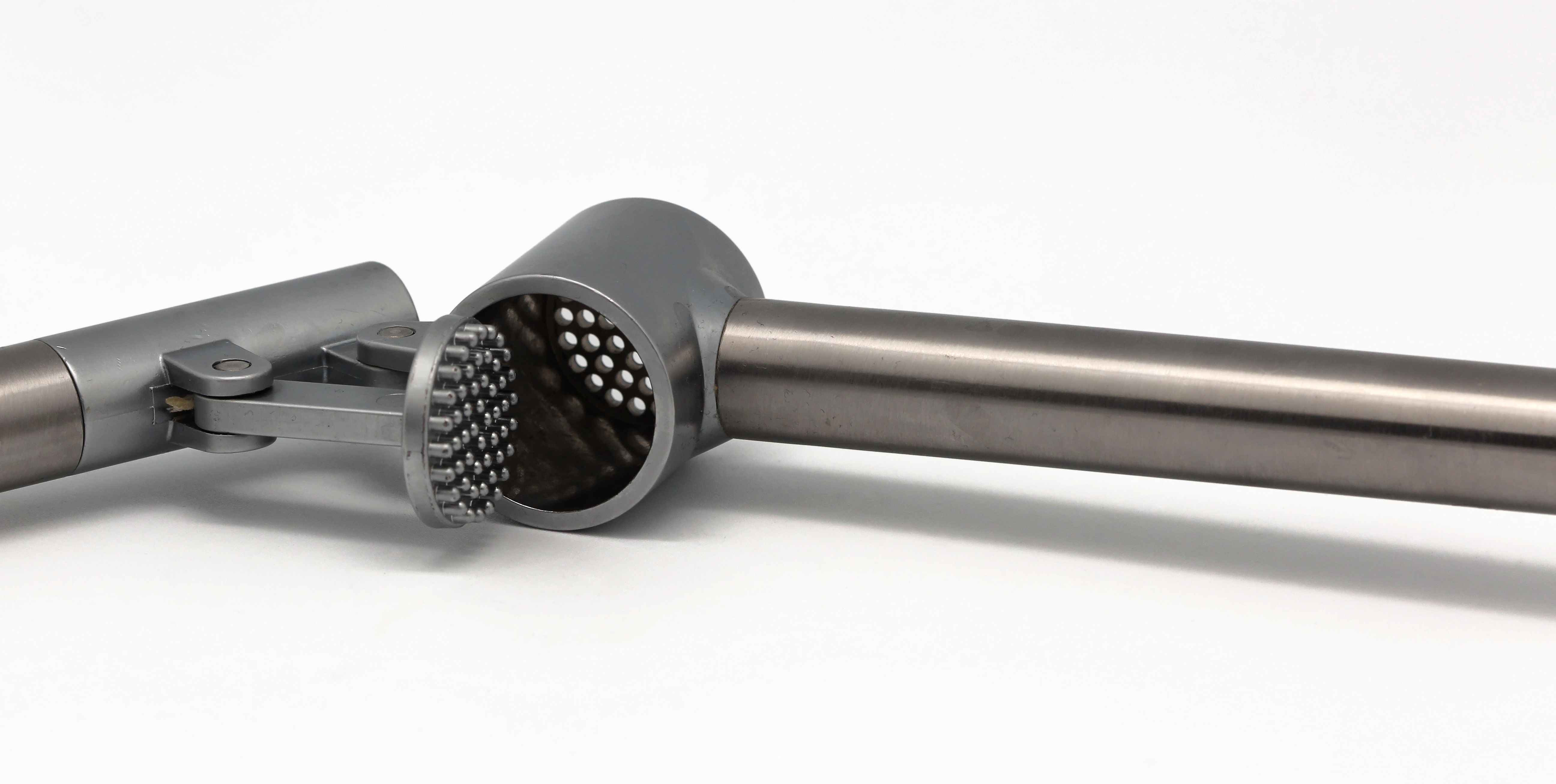 Garlic press, koncis series, ikea